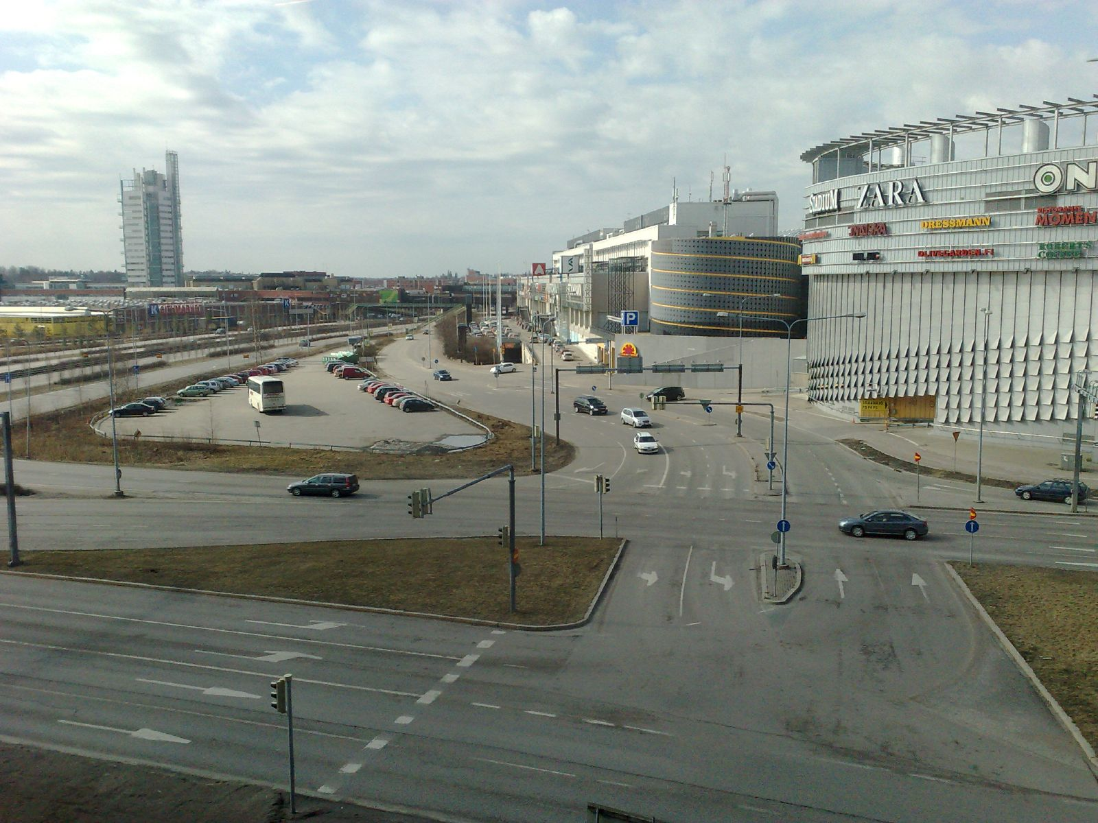 Shopping mall Itäkeskus seen from Prisma hyper market, Helsinki